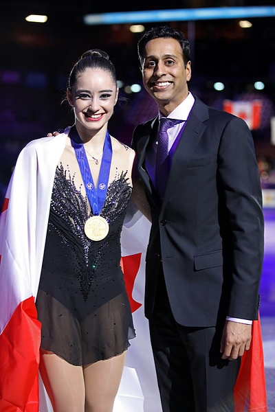 Photos – World Championships 2018 – Ladies (Medalists)